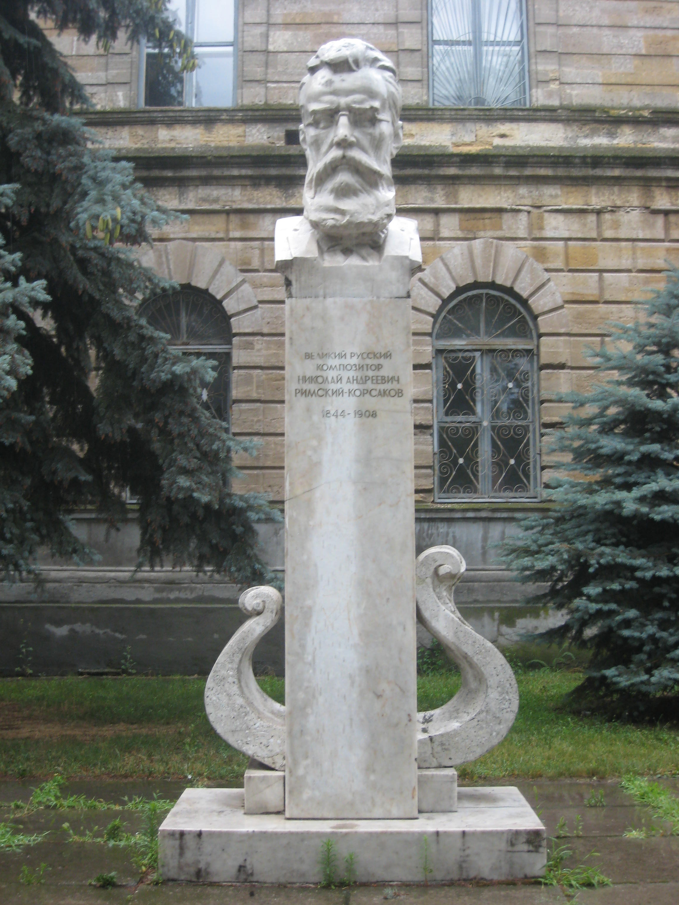 Monument to Nikolai Rimsky-Korsakov in Mykolaiv, Ukraine.